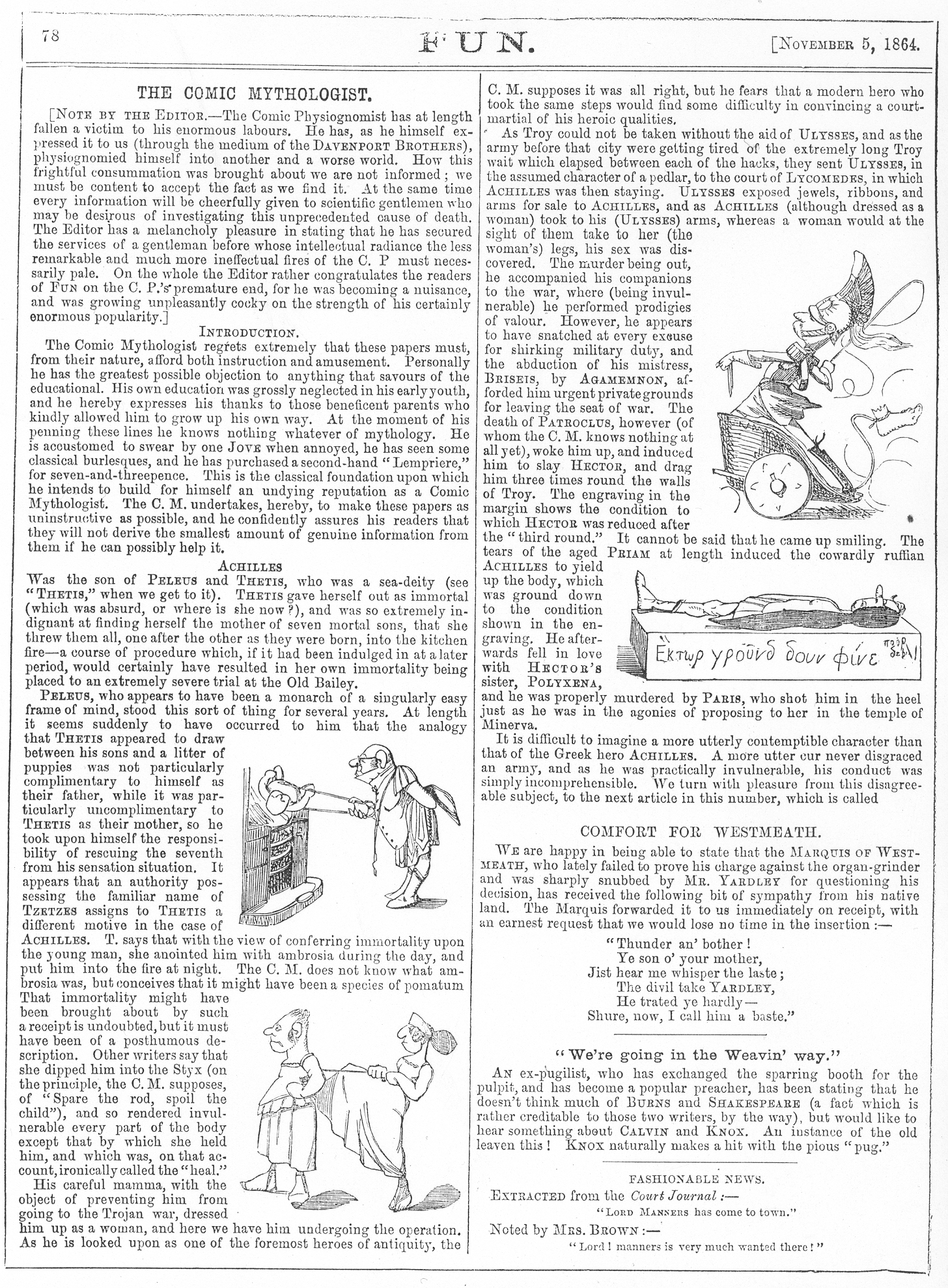 The first of W. S. Gilbert's "Comic Mythologist" series. The top illustration in the left-hand column was used for the frontispiece of Ambrose Bierce's The Fiend's Delight.*